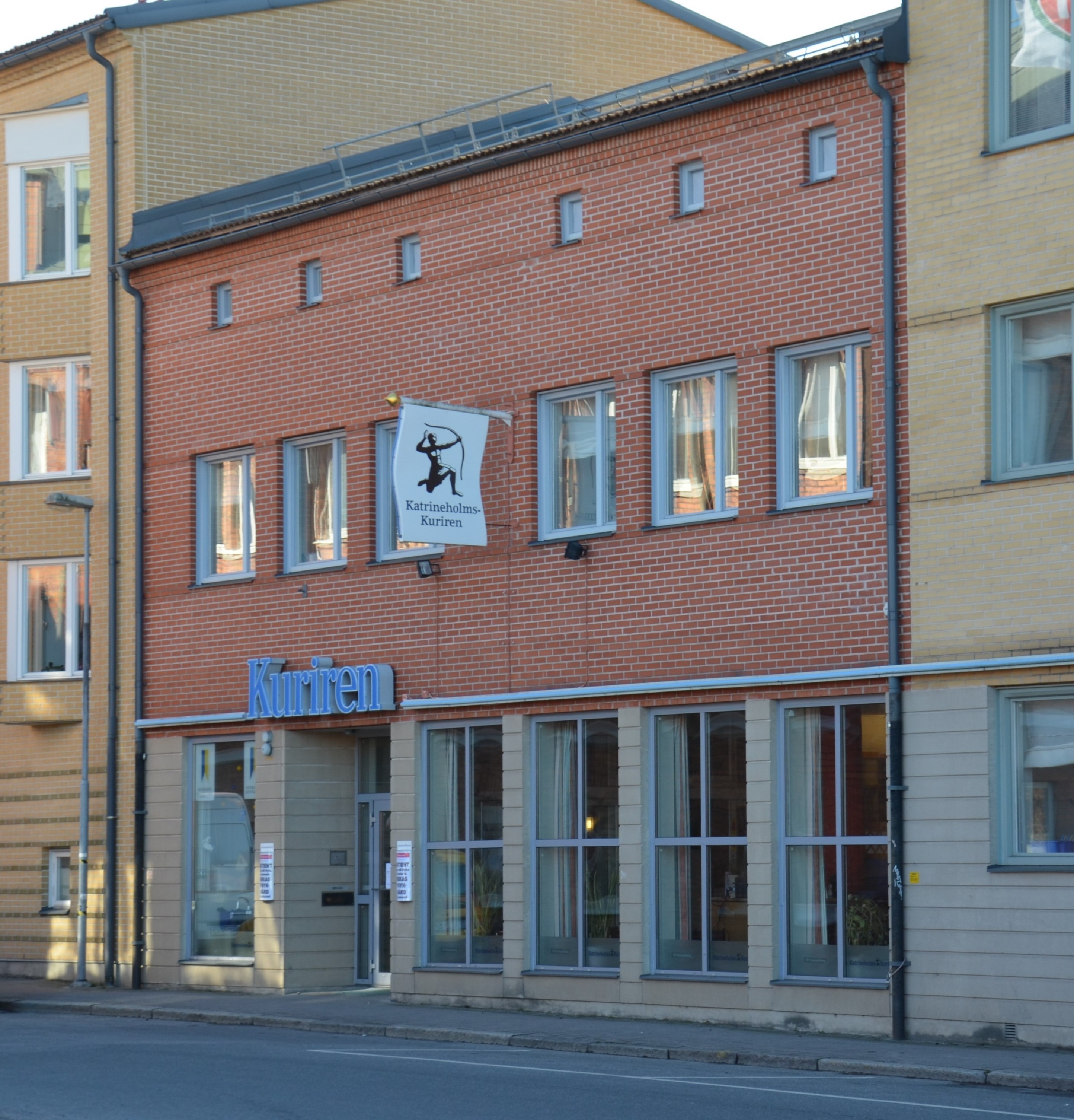 Katrineholms-Kurirens redaktionslokaler